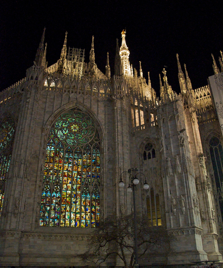 Duomo (Milan) at night.